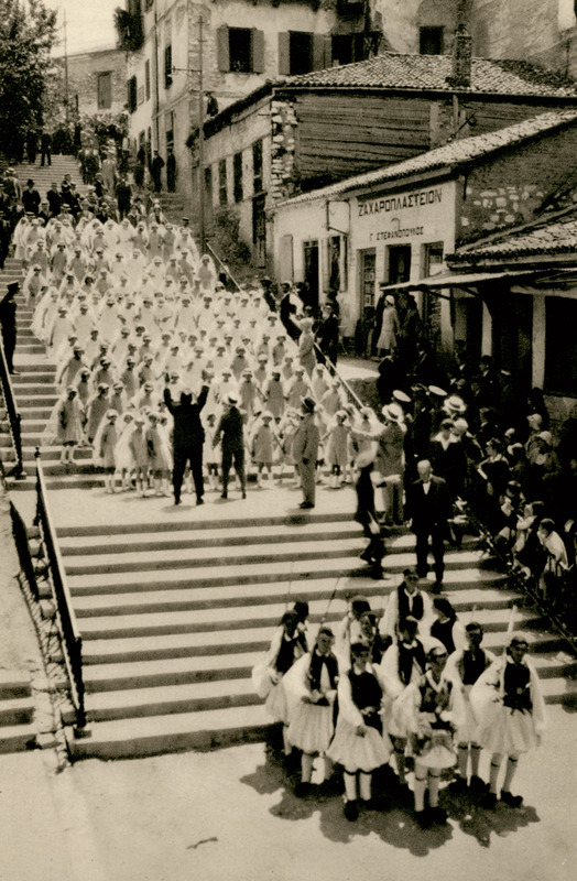 Patras- Les Fêtes du Centenaire